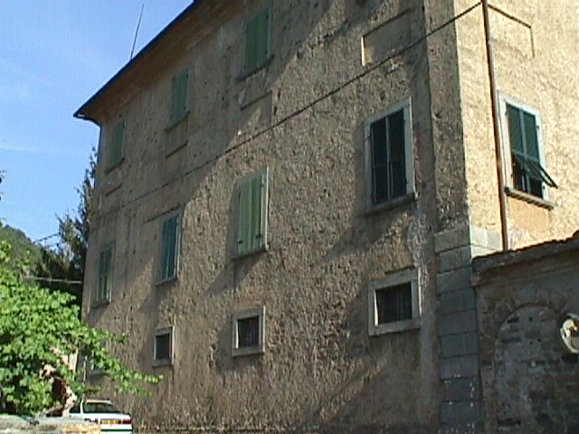 Villa Zucchini Zannelli